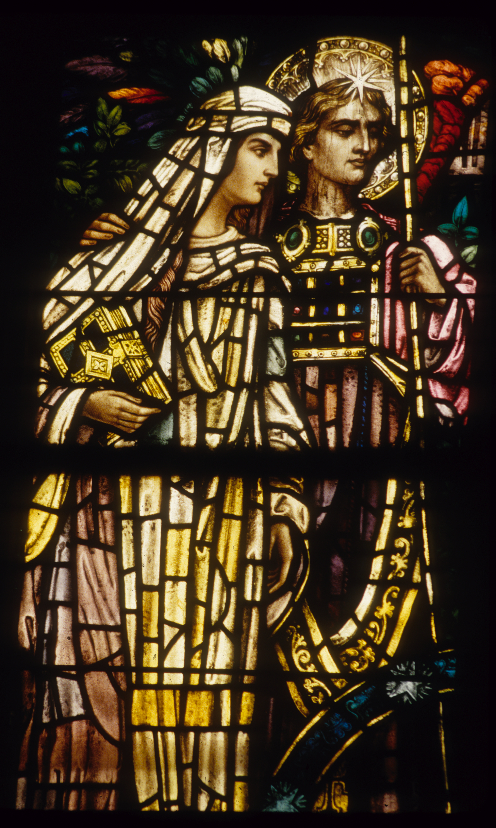 "Married Couple" by William and Anne Lee Willet, date unknown